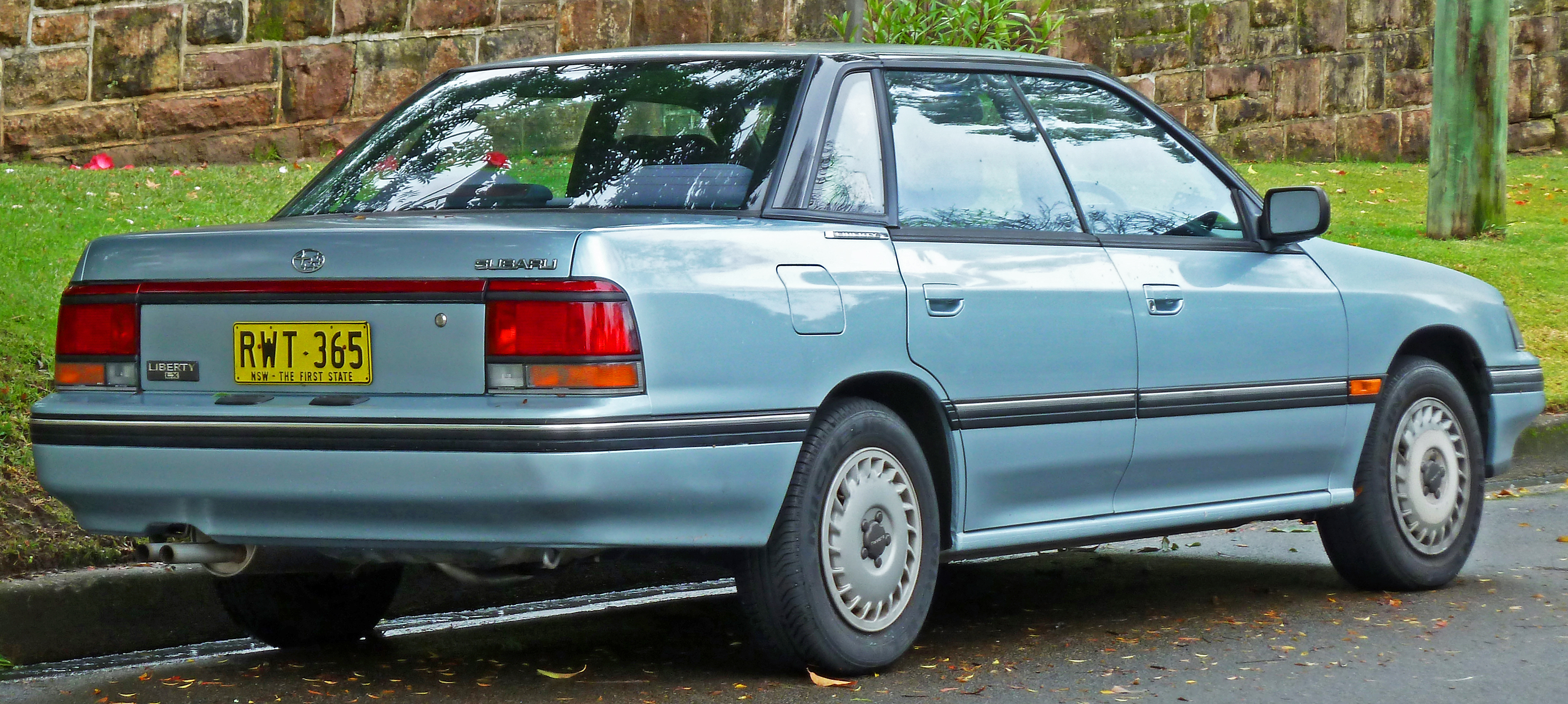 1991 Subaru Liberty (BC6) LX 2WD sedan. Photographed in Gordon, New South Wales, Australia.